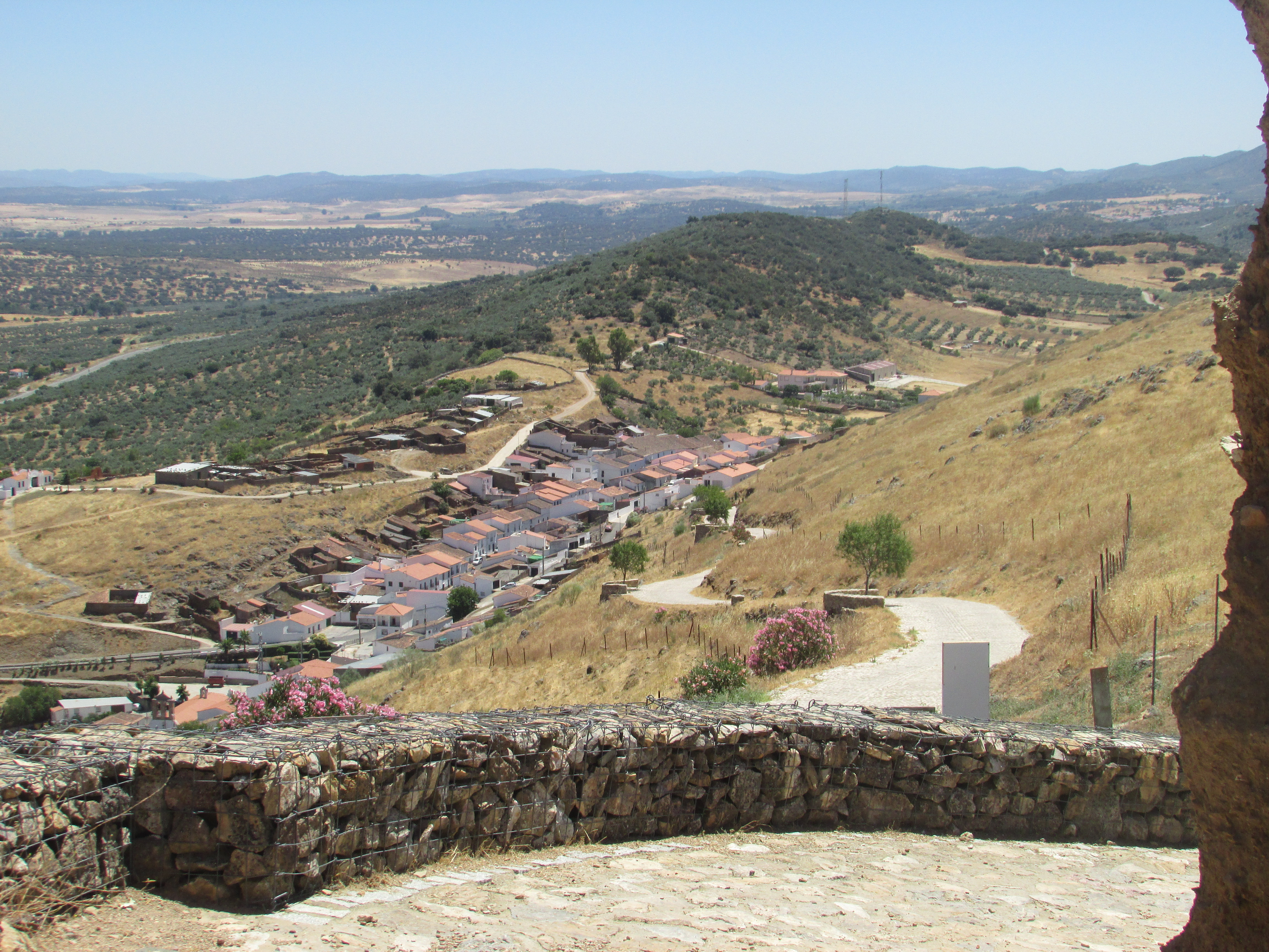 Looking down the valley towards the village of Reina, Badajoz, Extremadura, Spain.